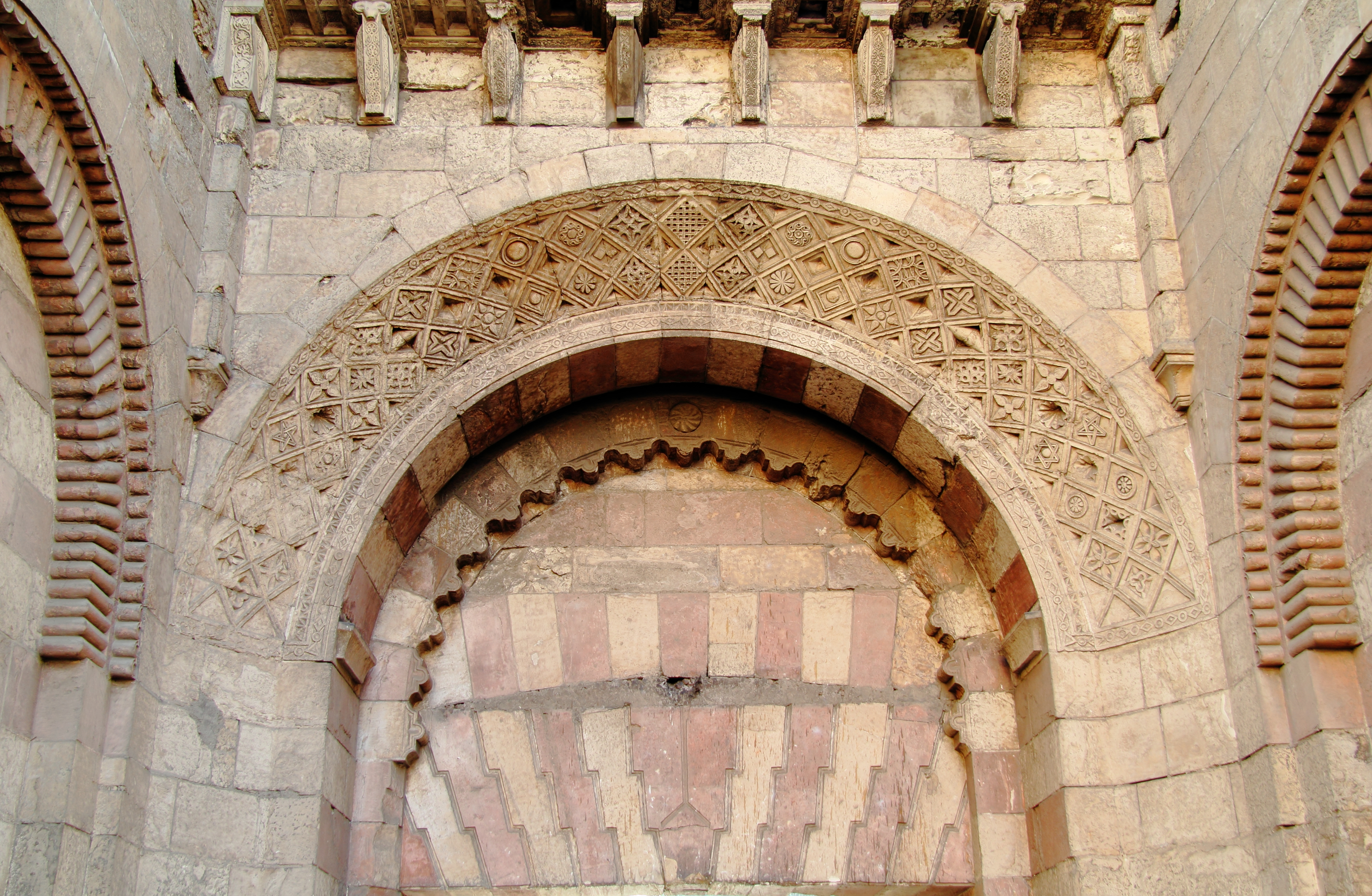 Cairo, Egypt: the medieval city gate Bab al-Futuh